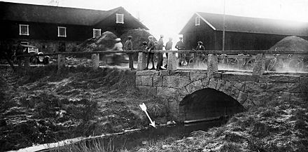 The Sala gangs first victim was the cab driver Sven Eriksson who was found murdered 15 November 1930 in a stream at Sörbo bridge, a few kilometers west of the town of Sala.